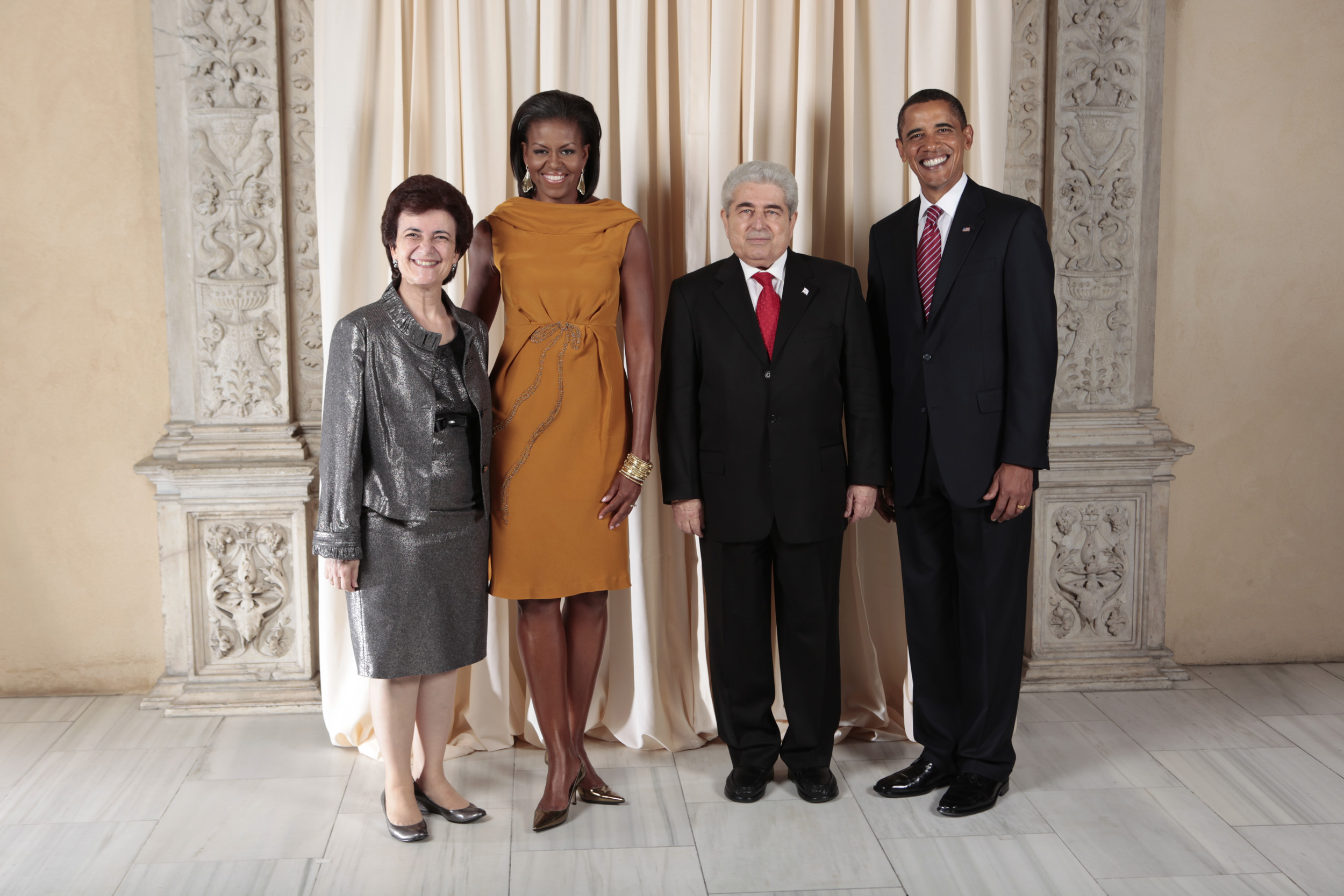 President Barack Obama and First Lady Michelle Obama pose for a photo during a reception at the Metropolitan Museum in New York with Demetris Christofias, President of the Republic of Cyprus, and Mrs. Elsie Chiratou Christofia.